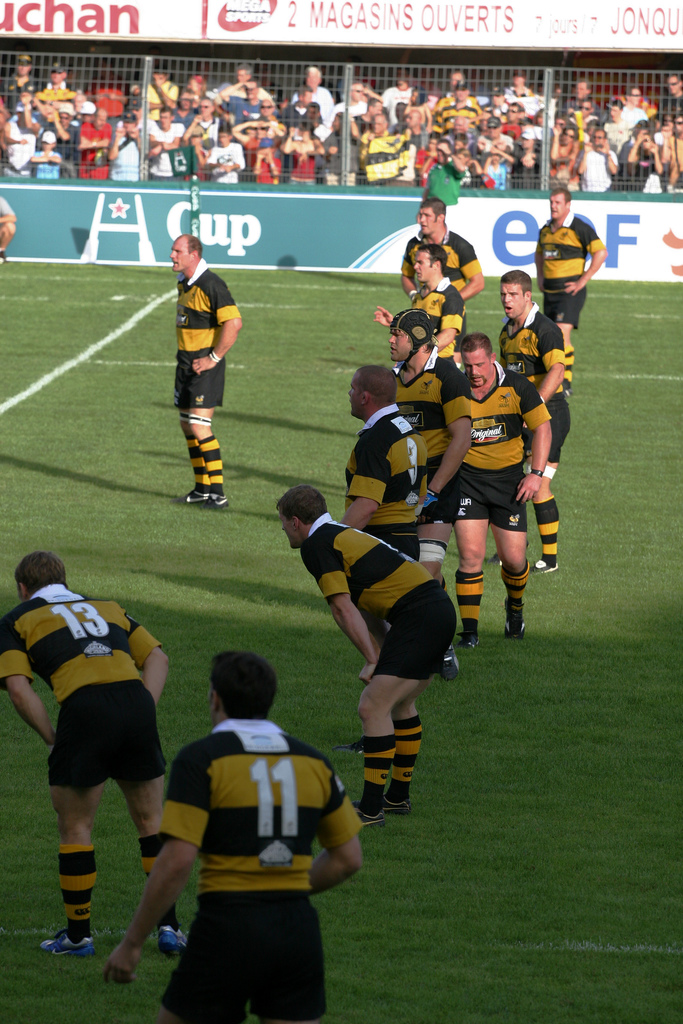 Wasps/USAP rugby game